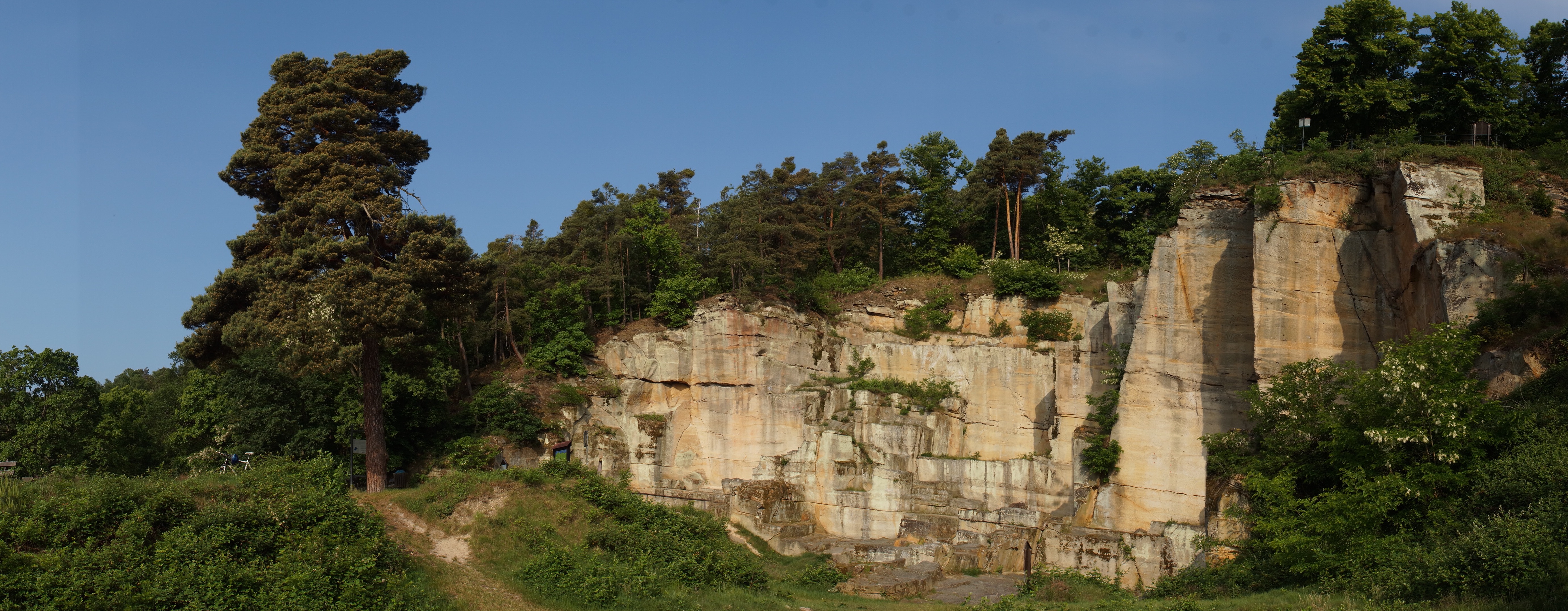 Kriemhildenstuhl Panorama Roman stone quarry at Bad Duerkheim, the Palatinate, Germany